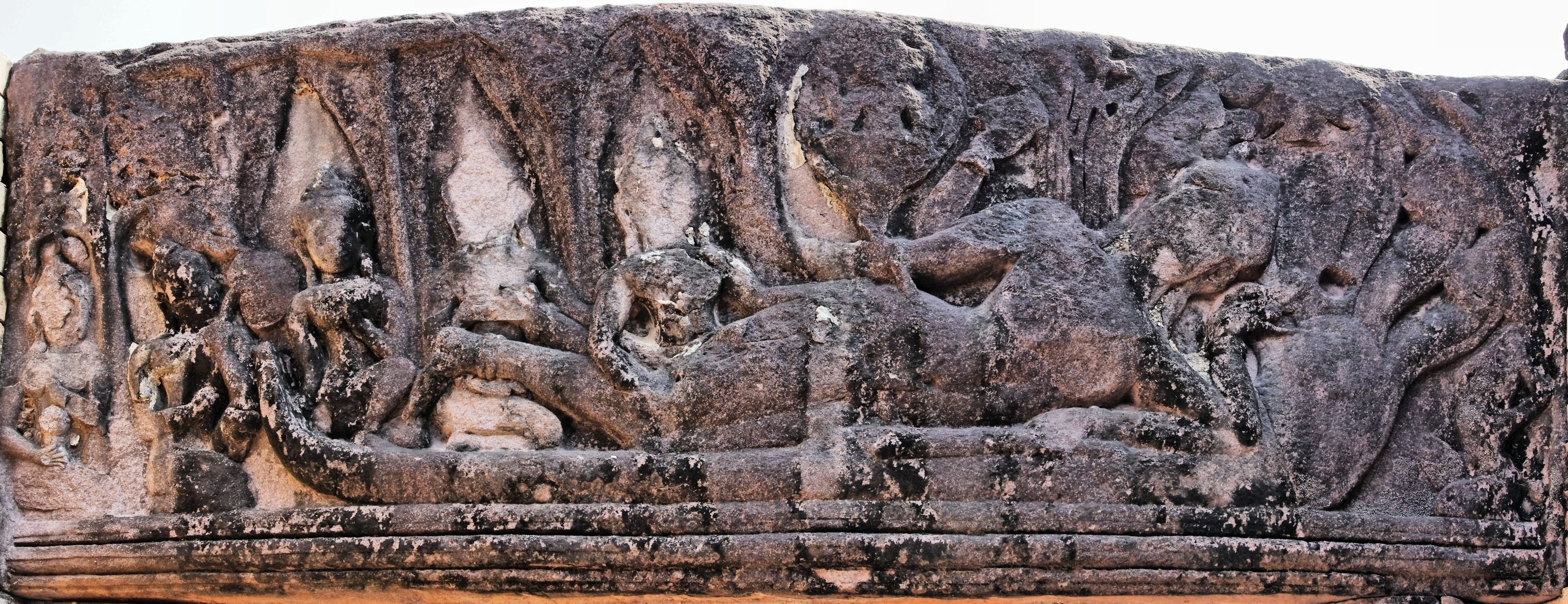 Prasat Sa Kamphaeng Yai, Thailand. Vishnu (in Thai: Phra Narai) asleep in the cosmic ocean on the back of a great serpent deity known as a Naga. From his navel sprouts a lotus with one thousand petals. In the middle of the lotus sits Brahma, the creator.